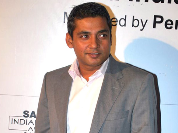 Ajay jadega